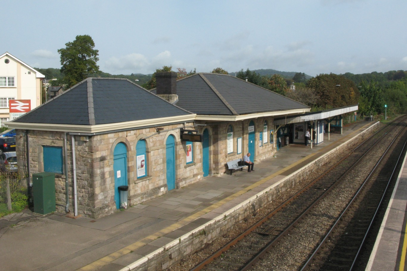 Chesptow railway station was designed by Isambard Kingdom Brunel for the South Wales Railway. His original buildings survive on platform 2 which was then used by London-bound trains but now sees trains to Cheltenham and Nottingham.